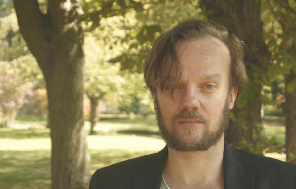 Oscar Bianchi visiting the Royaumont Abbey at the occasion of the performance of his work ANTE LITTERAM